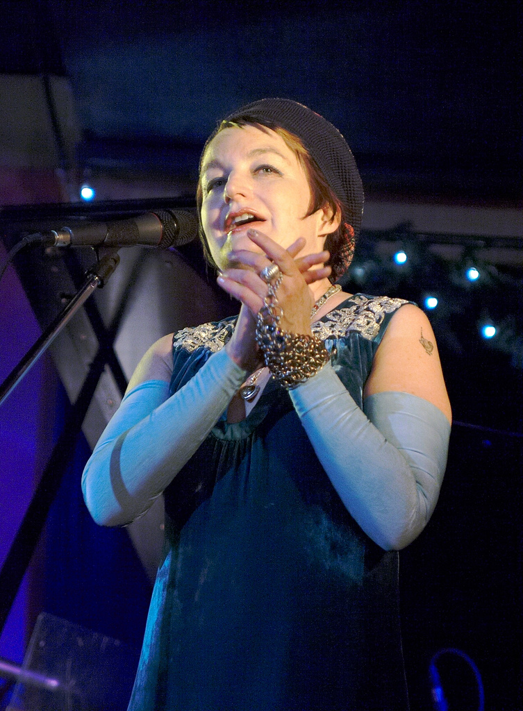 Issa performing at Hugh's Room in Toronto, Ontario, Canada